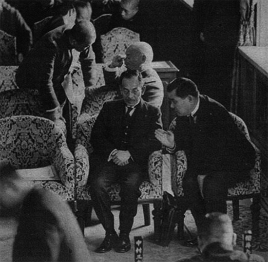 Vice Finance Minister Okinori Kaya (right) puts a word into Finance Minister Toyotarō Yūki's ear before a secret session of the House Budget Committee.